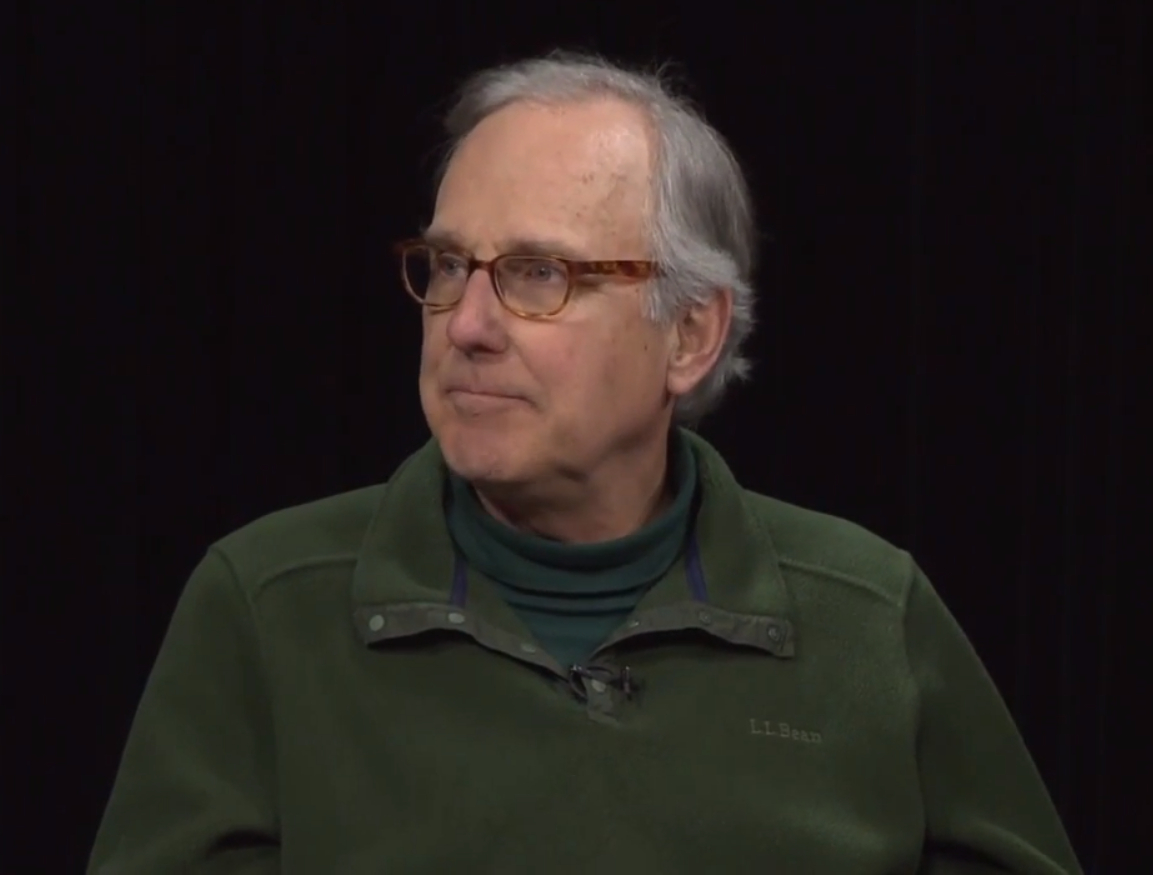 Bruce Beehler